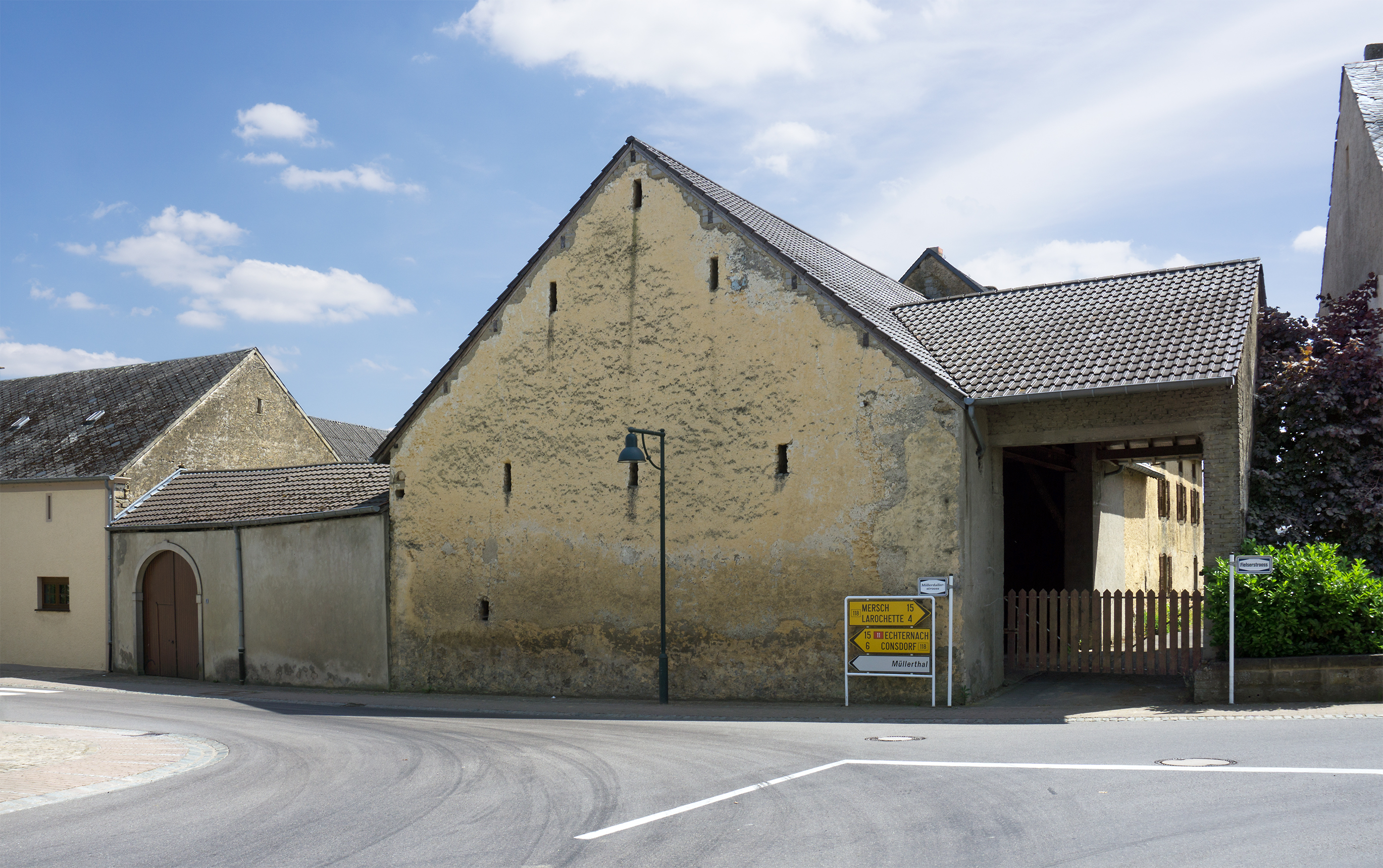 Farm in Christnach, 2 Moellerdallerstrooss